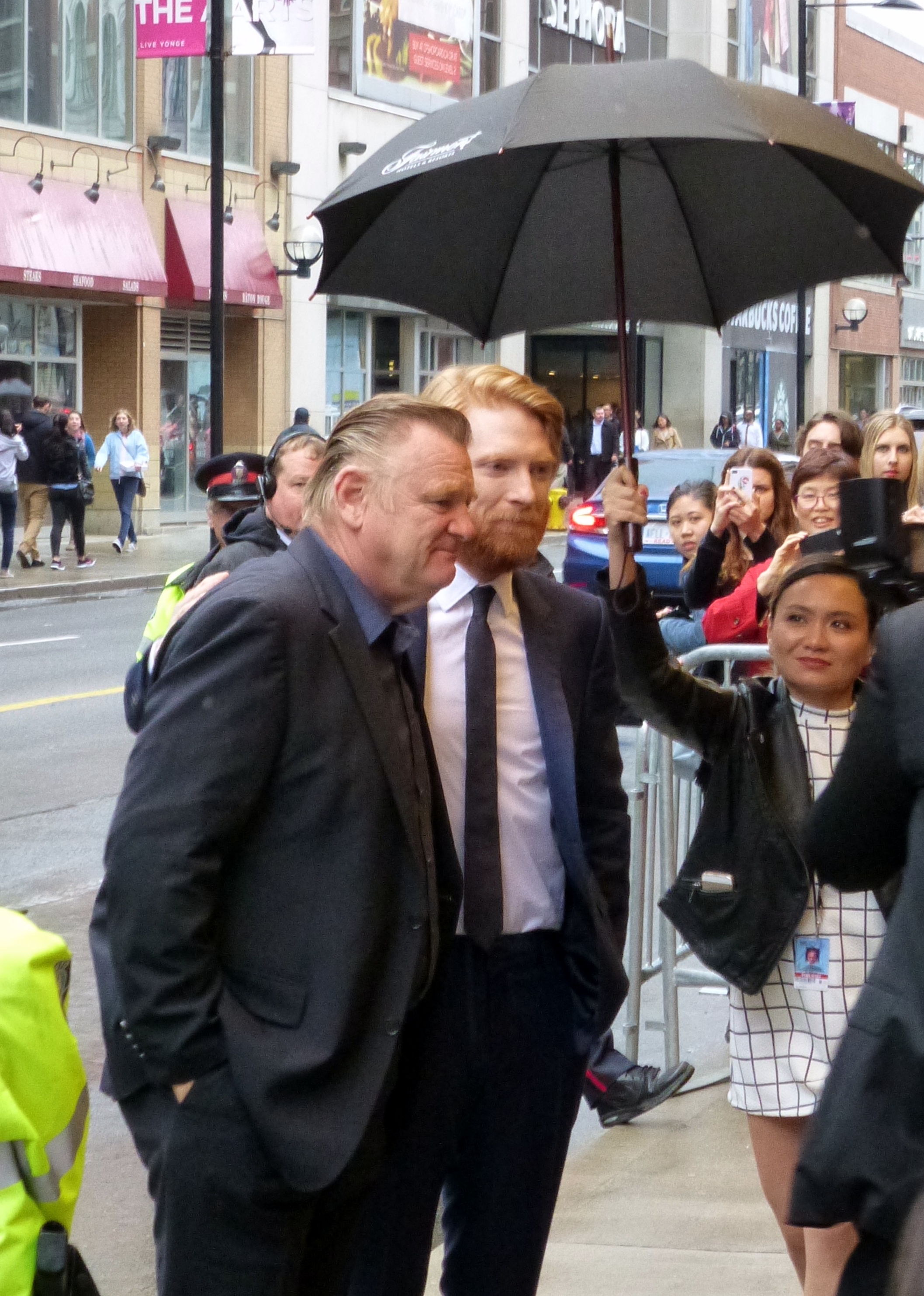 Father/son shot Brendan Gleeson and Domhnall Gleeson at the premiere of Brooklyn, 2015 Toronto Film Festival